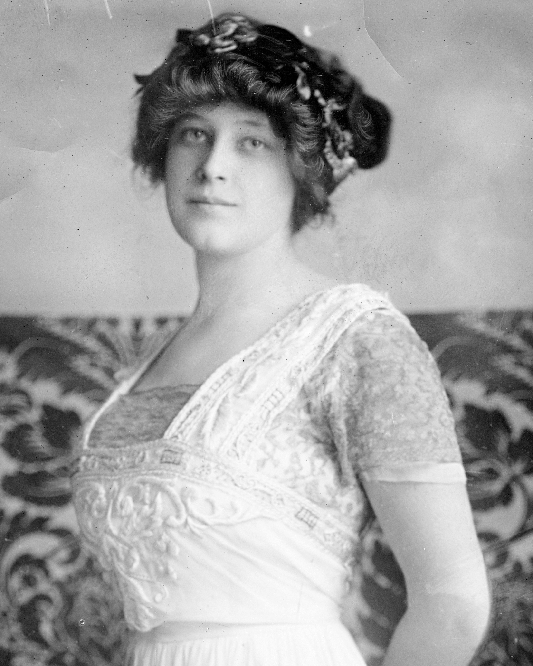 Madeleine Astor, wife of John Jacob Astor IV, circa 1910.